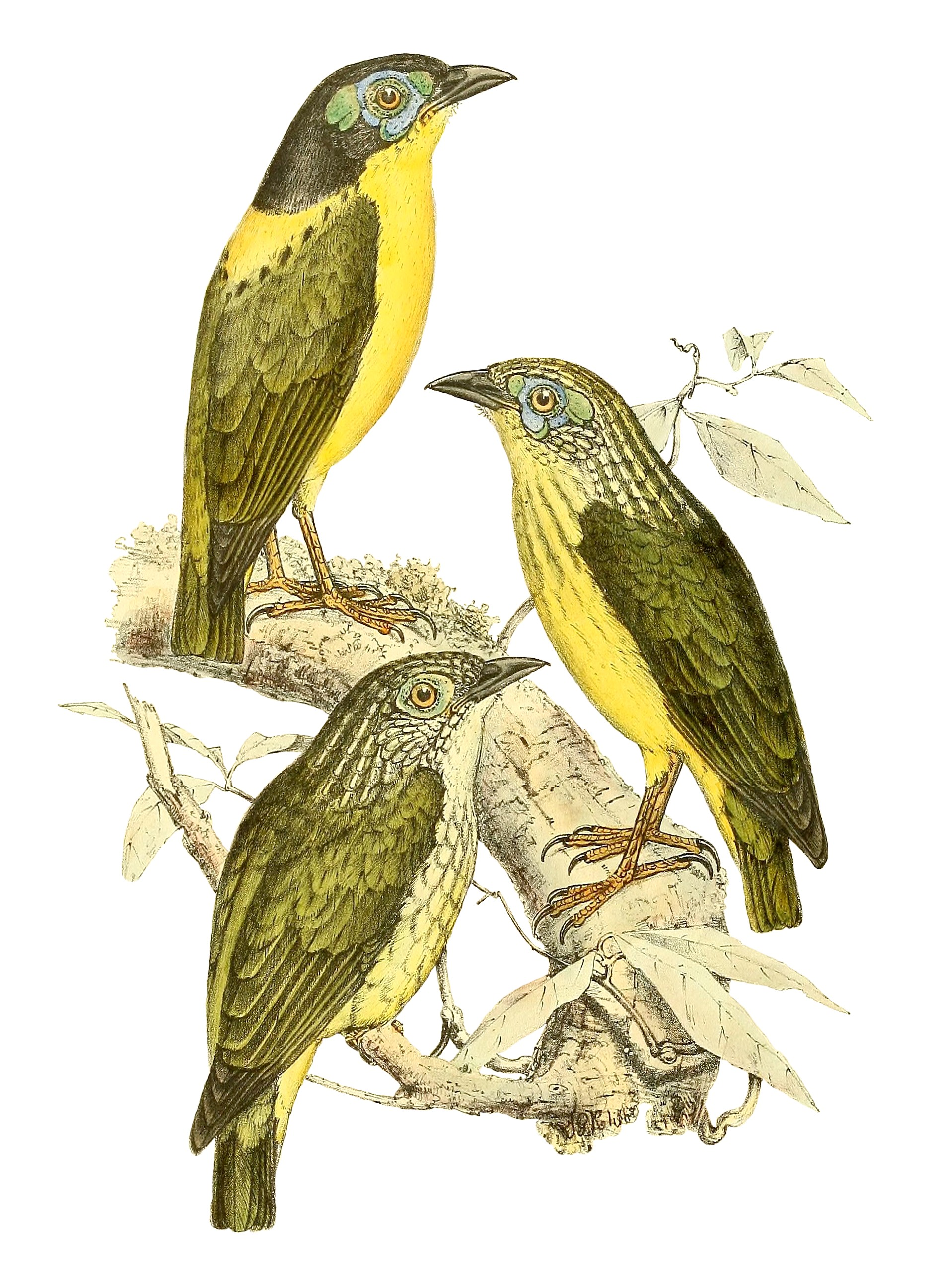 Philepitta schlegeli (Schlegel's Asity)